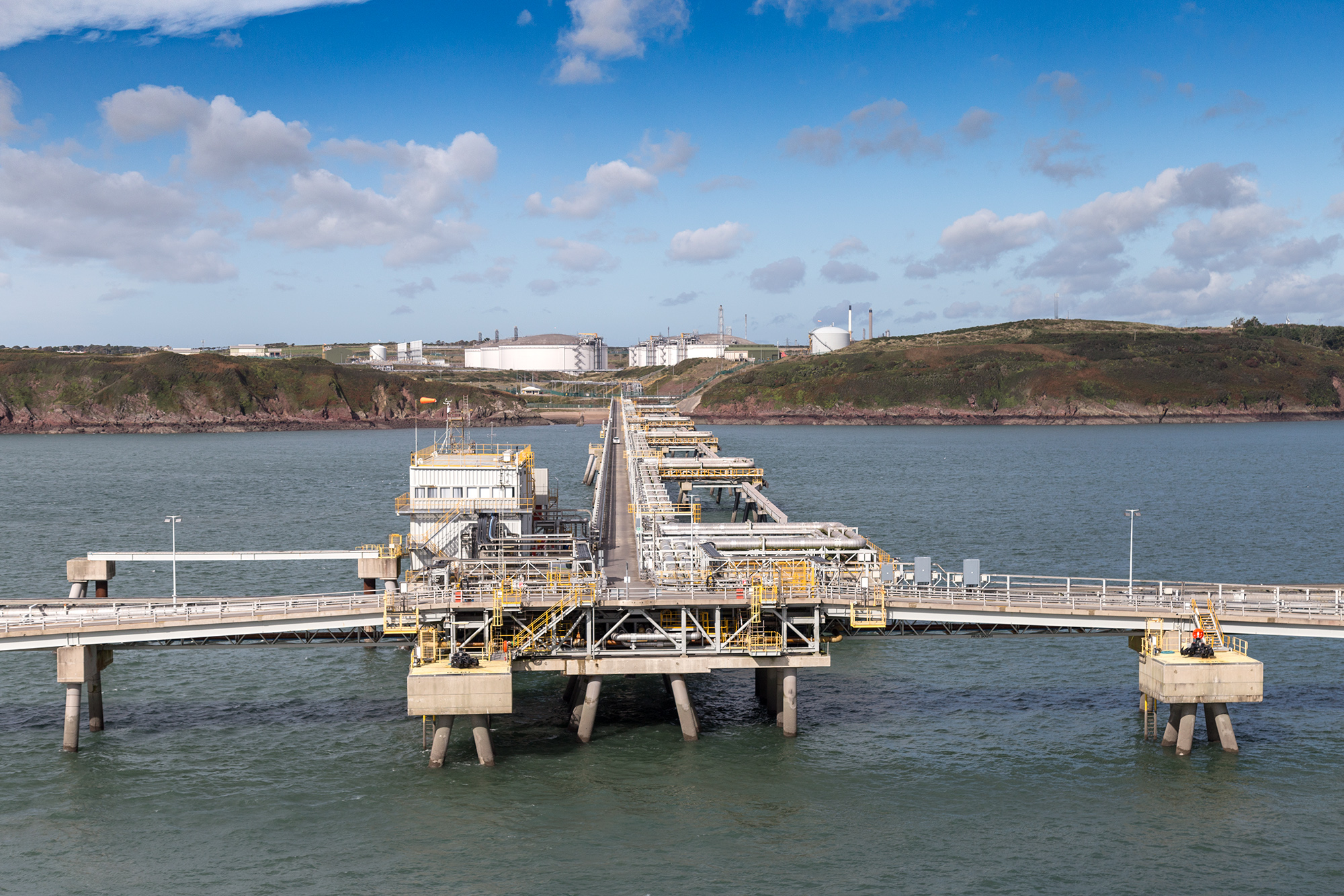 View NNE passing the jetty of the oil refinery, from the deck of the Irish Ferries vessel, Isle of Inishmore, departing for Rosslare